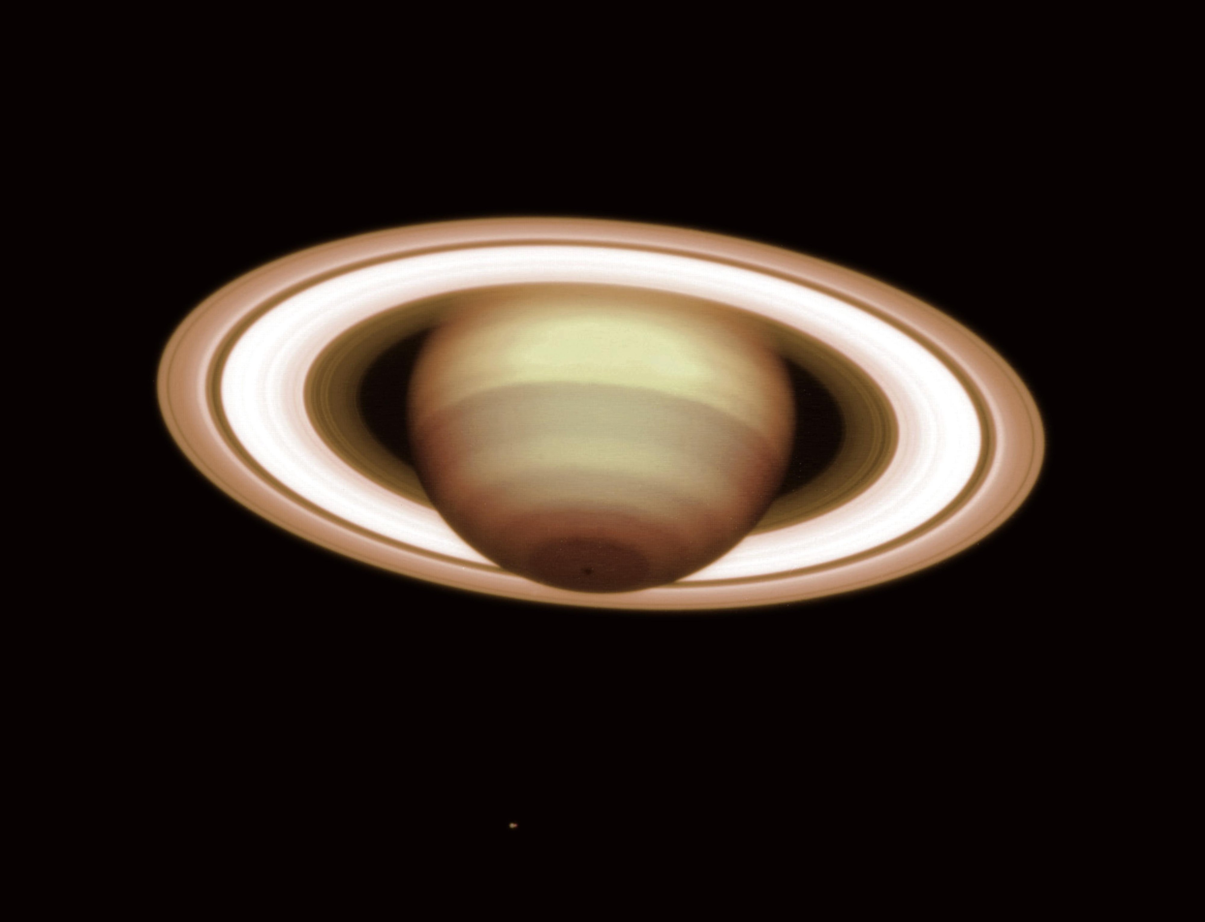 The giant planet Saturn, as observed with the VLT NAOS-CONICA Adaptive Optics instrument on December 8, 2001; the distance was 1209 million km. It is a composite of exposures in two near-infrared wavebands (H and K) and displays well the intricate, banded structure of the planetary atmosphere and the rings. Note also the dark spot at the south pole at the bottom of the image. One of the moons, Tethys, is visible as a small point of light below the planet. It was used to guide the telescope and to perform the adaptive optics "refocussing" for this observation. More details in the text. This image of Saturn, the second-largest planet in the solar system, was obtained at a time when Saturn was close to summer solstice in the southern hemisphere. At this moment, the tilt of the rings was about as large as it can be, allowing the best possible view of the planet's South Pole. That area was on Saturn's night side in 1982 and could therefore not be photographed during the Voyager encounter. The dark spot close to the South Pole is a remarkable structure that measures approximately 300 km across. The bright spot close to the equator is the remnant of a giant storm in Saturn's extended atmosphere that has lasted more than 5 years. The present photo provides what is possibly the sharpest view of the ring system ever achieved from a ground-based observatory. Many structures are visible, the most obvious being the main ring sections, the inner C-region (here comparatively dark), the middle B-region (here relatively bright) and the outer A-region, and also the obvious dark "divisions", including the well-known, broad Cassini division between the A- and B-regions, as well as the Encke division close to the external edge of the A-region and the Colombo division in the C-region. Moreover, many narrow rings can be seen at this high image resolution, in particular within the C-region.